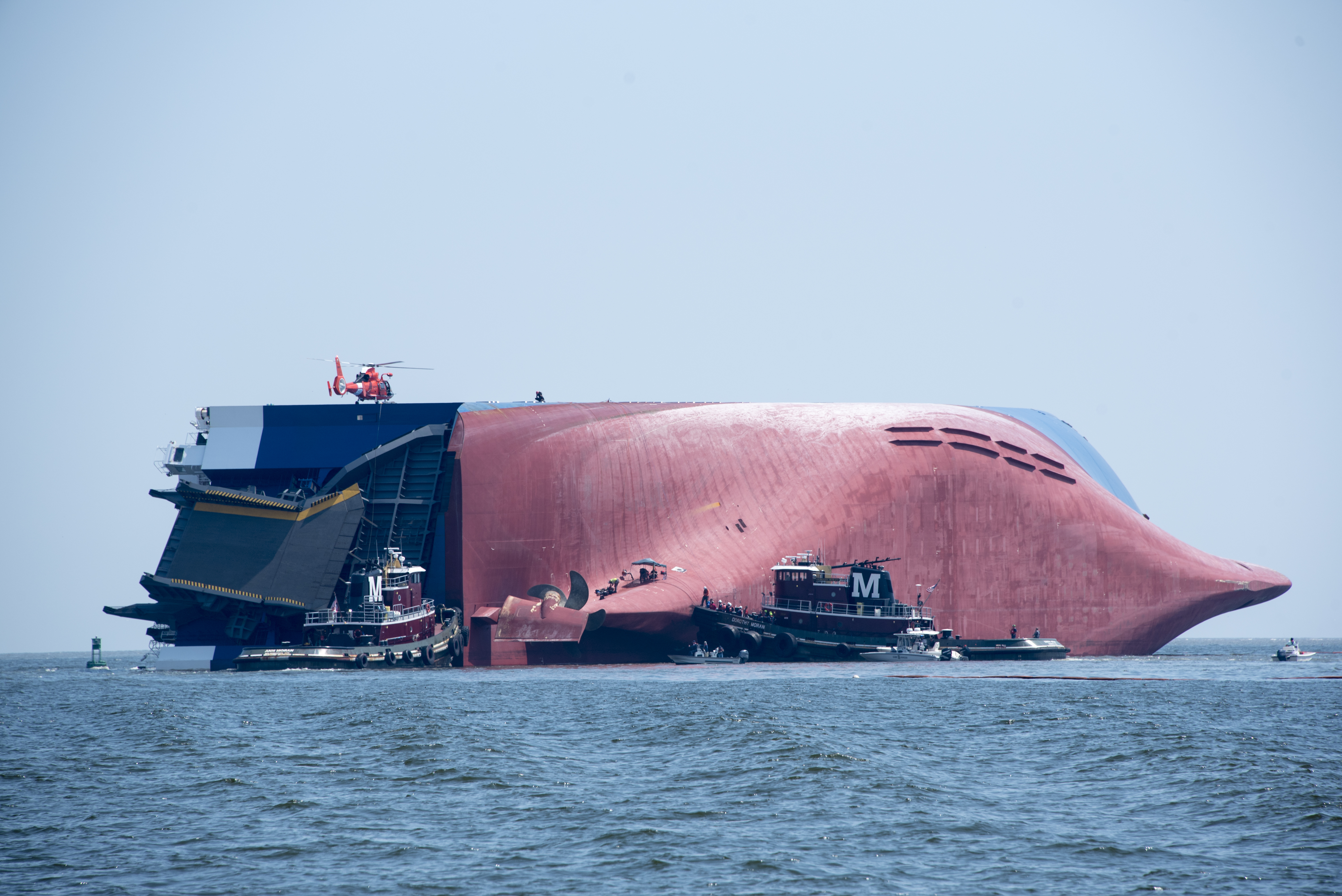 A Coast Guard Air Station Savannah MH-65 Dolphin helicopter rests on the side of the Golden Ray, a 656-foot vehicle carrier, to drop off supplies for Coast Guard crews and port partners who attempt to locate and rescue the remaining four crewmembers aboard the Golden Ray, Sept. 9, 2019, in St. Simons Sound, near Brunswick, Georgia. A Coast Guard Air Station Savannah MH-65 Dolphin helicopter aircrew, Station Brunswick boat crews and other port partners rescued 20 people the morning of Sept. 8, after it was reported the vessel was disabled and listing.